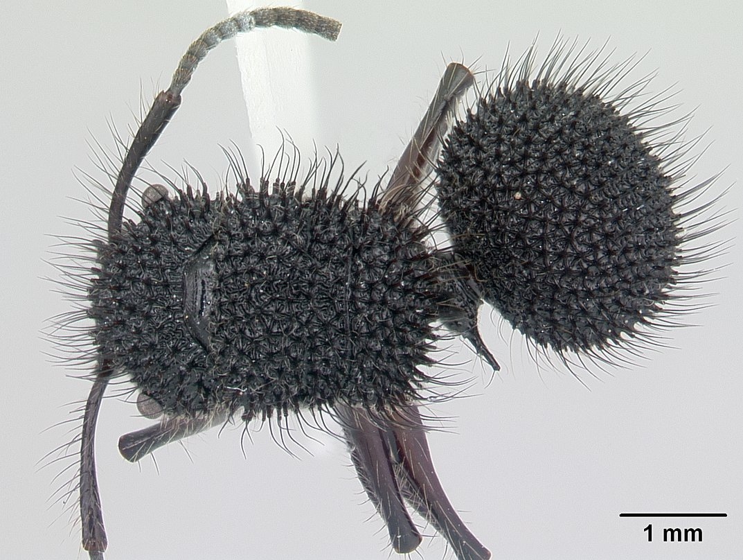 Dorsal view of ant Echinopla melanarctos specimen casent0178497.